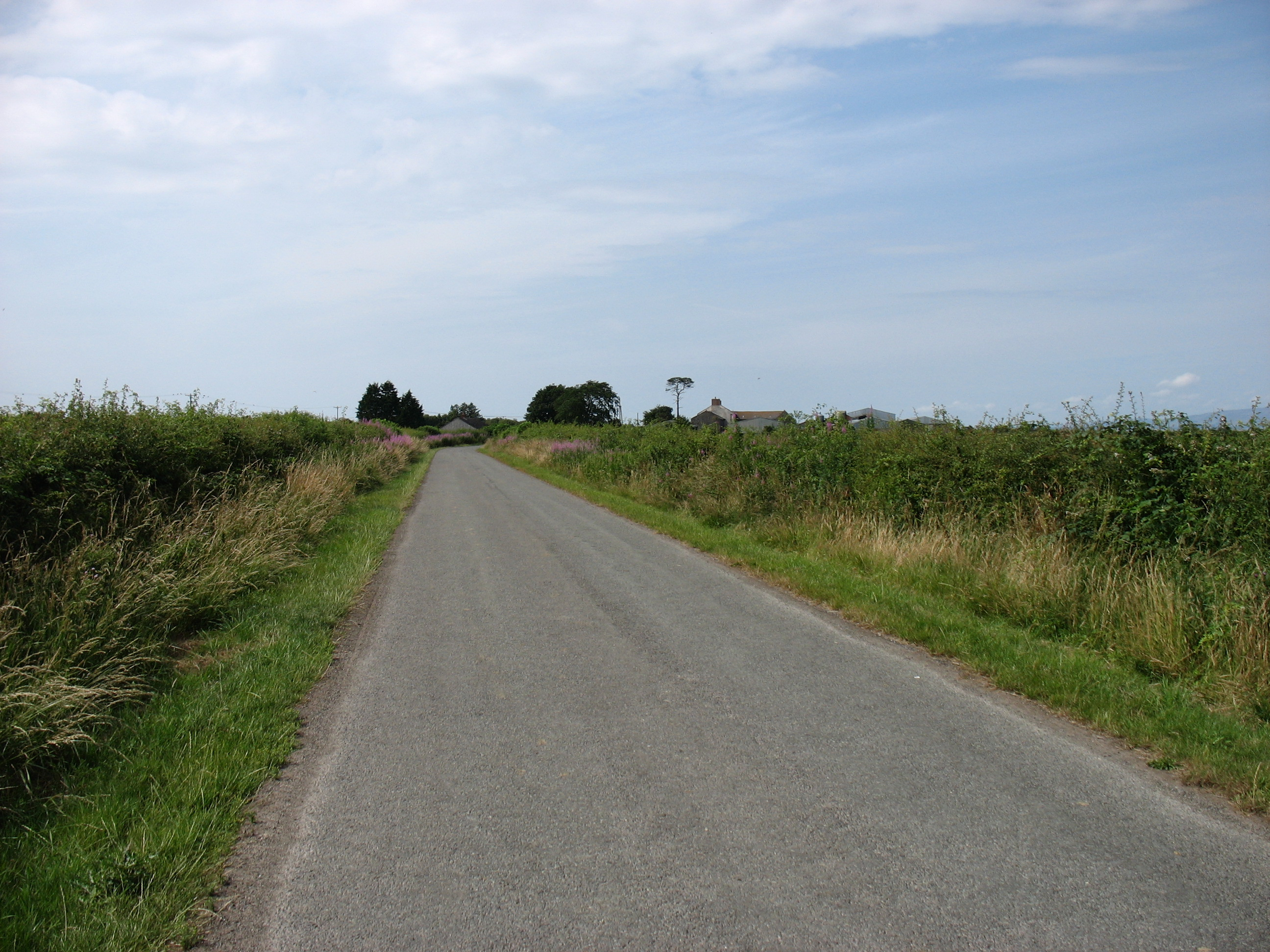 The road to Cardurnock